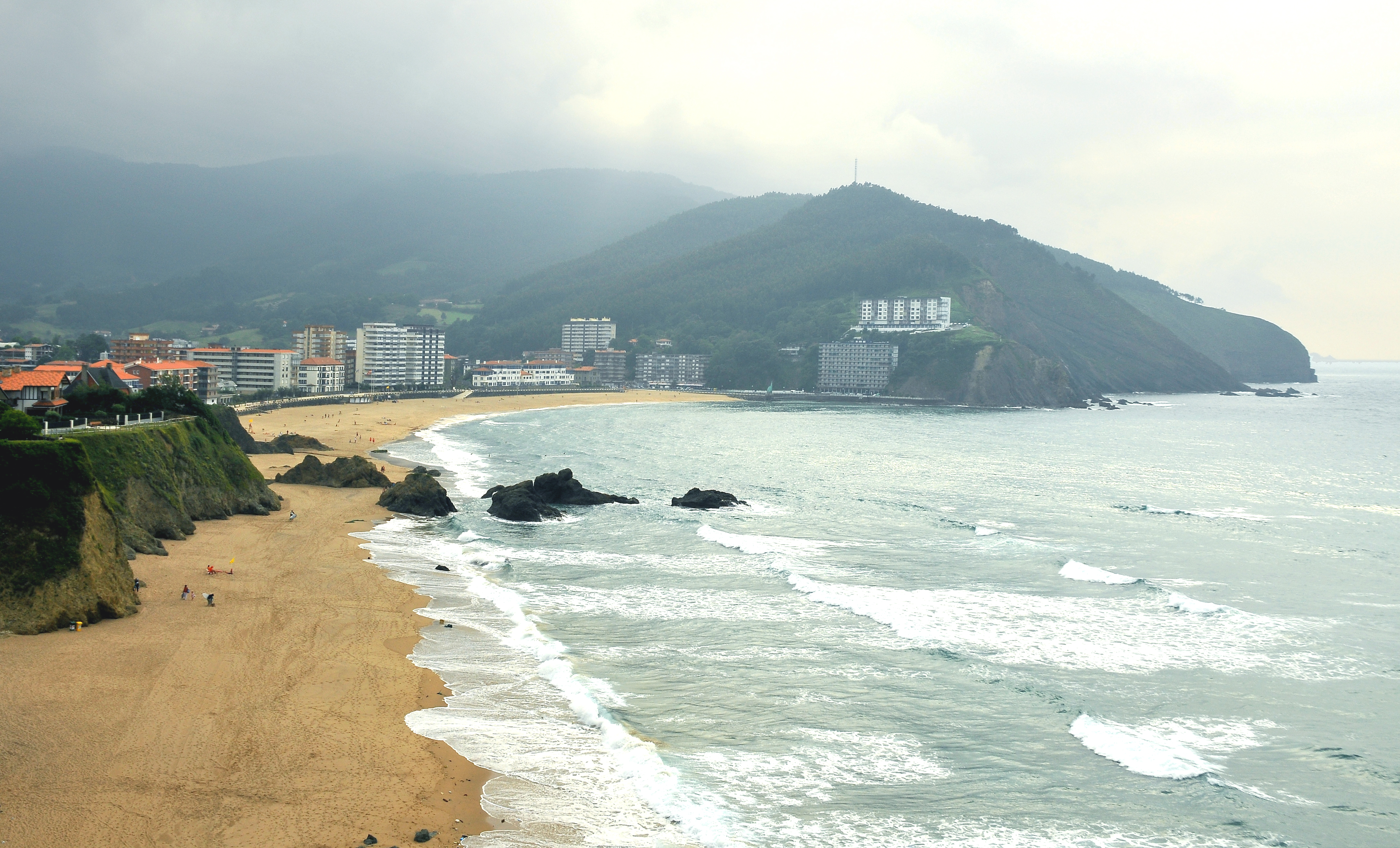 Coast view from east. Bakio, Biscay, Basque Country, Spain